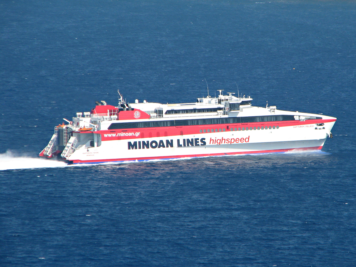 Santorini Palace entering the port of Athinios in Santorini.